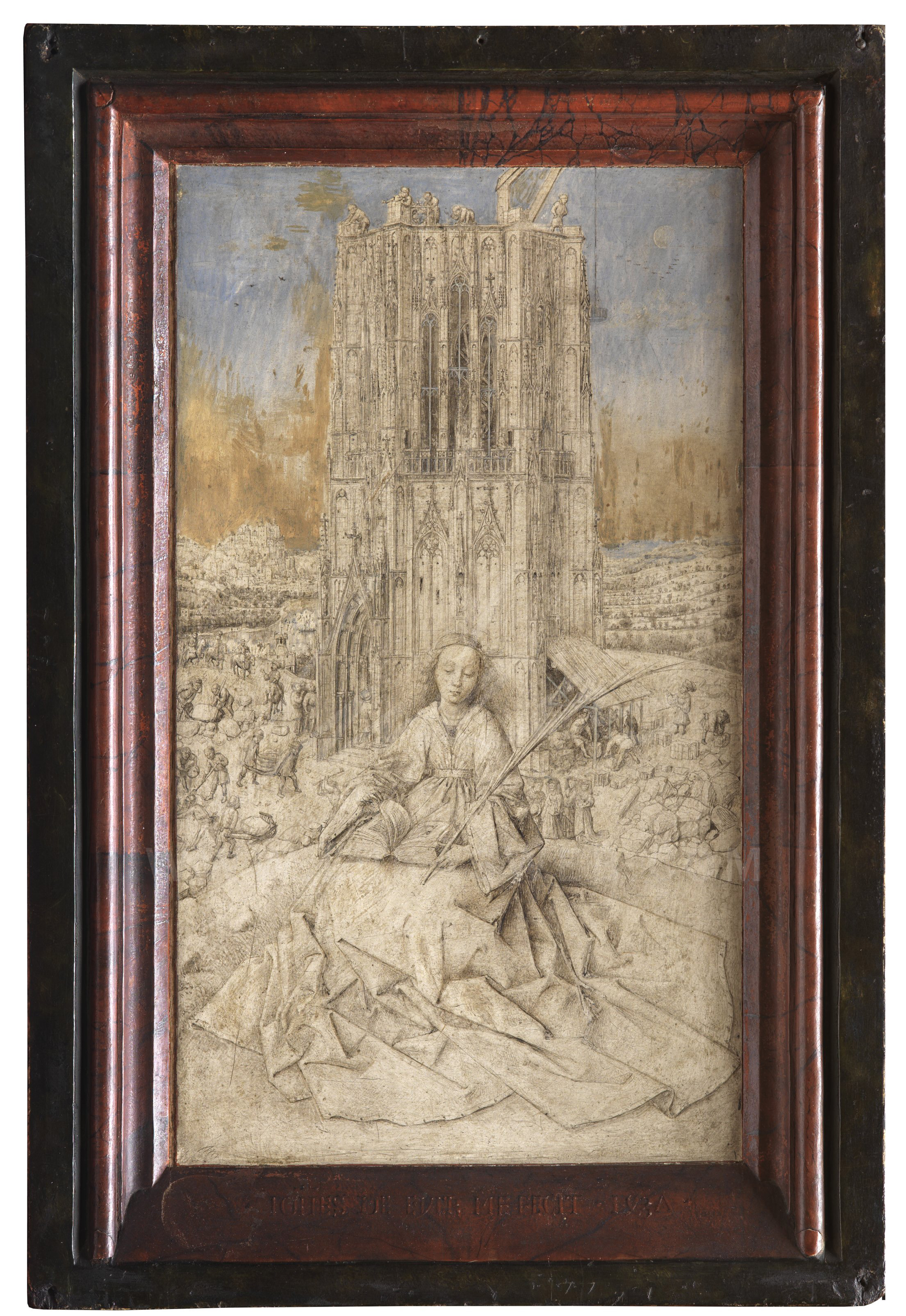 31 x 18 cm Collection: Royal Museum of Fine Arts Antwerp Inventory number: 410 The frame contains Jan van Eyck's original signature, as he did with more of his paintings.[1]